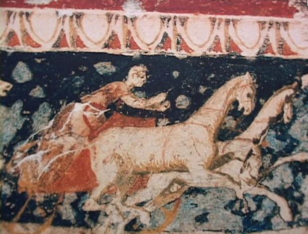 Wall painting on tomb at Vergina, Greece